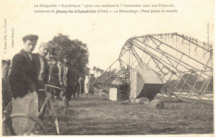 3 September 1909: The Lebaudy République (gondola and keel) lying on their side at Jussy-le-Chaudrier, France, after the deflation and removal of the gas-bag (envelope)